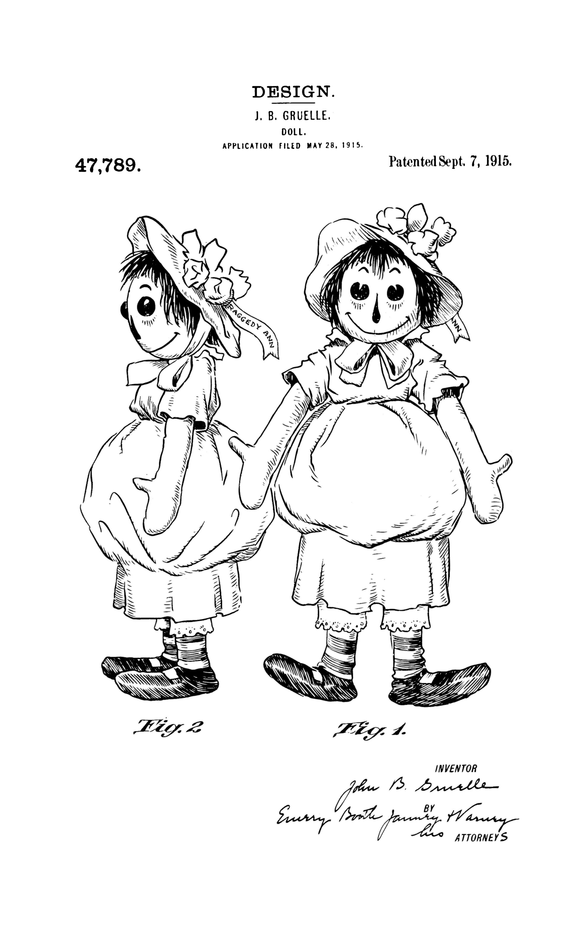 Gruelle's Raggedy Ann design patented by United States Patent Office on Sept. 7, 1915. Des. 47,789 Applicant: John B. Gruelle, New York, New York Design for a Doll Application filed May 28, 1915 Serial NO. 31,073